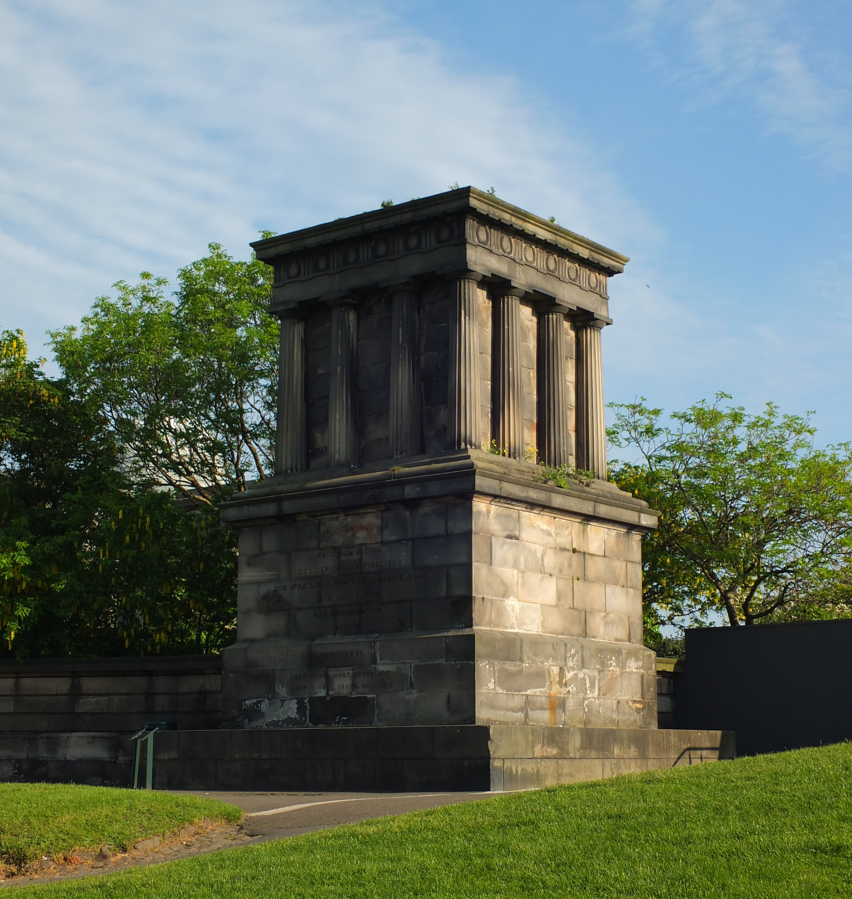 Monument to John Playfair, designed by William Henry Playfair on Calton Hill, Edinburgh, Scotland